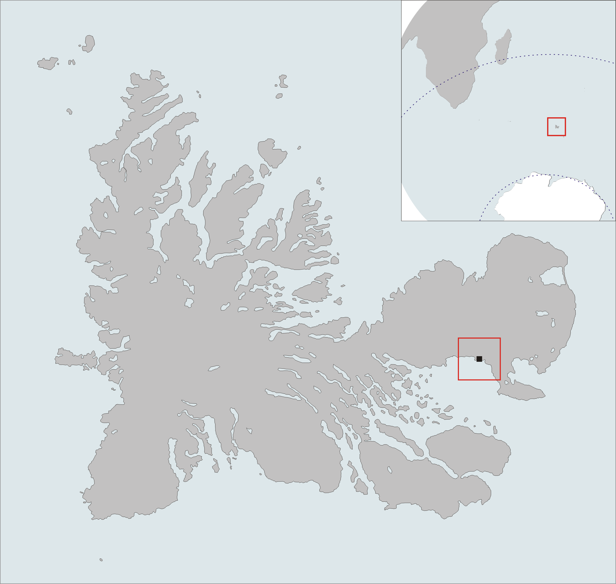 Position of Port-aux-Français, Kerguelen Islands (French Southern and Antarctic Territories) map drawn by varp